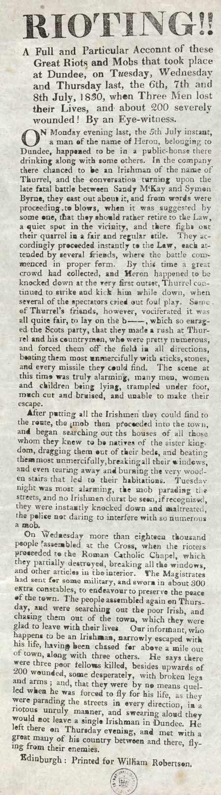 Newspaper cutting of 1830. Detailing rioting in Dundee. Public domain by virtue of age